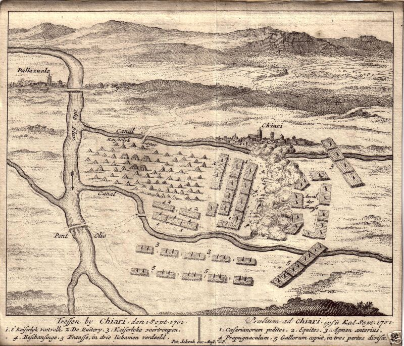 Battle of chiari